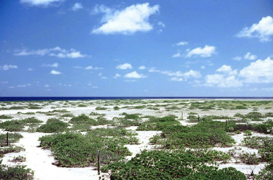 Landscape of Tromelin, Indian Ocean.